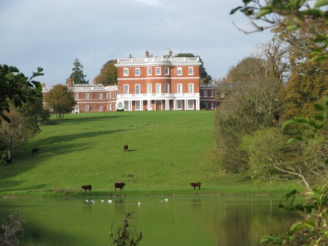 Bicton House over the lake in Bicton Park